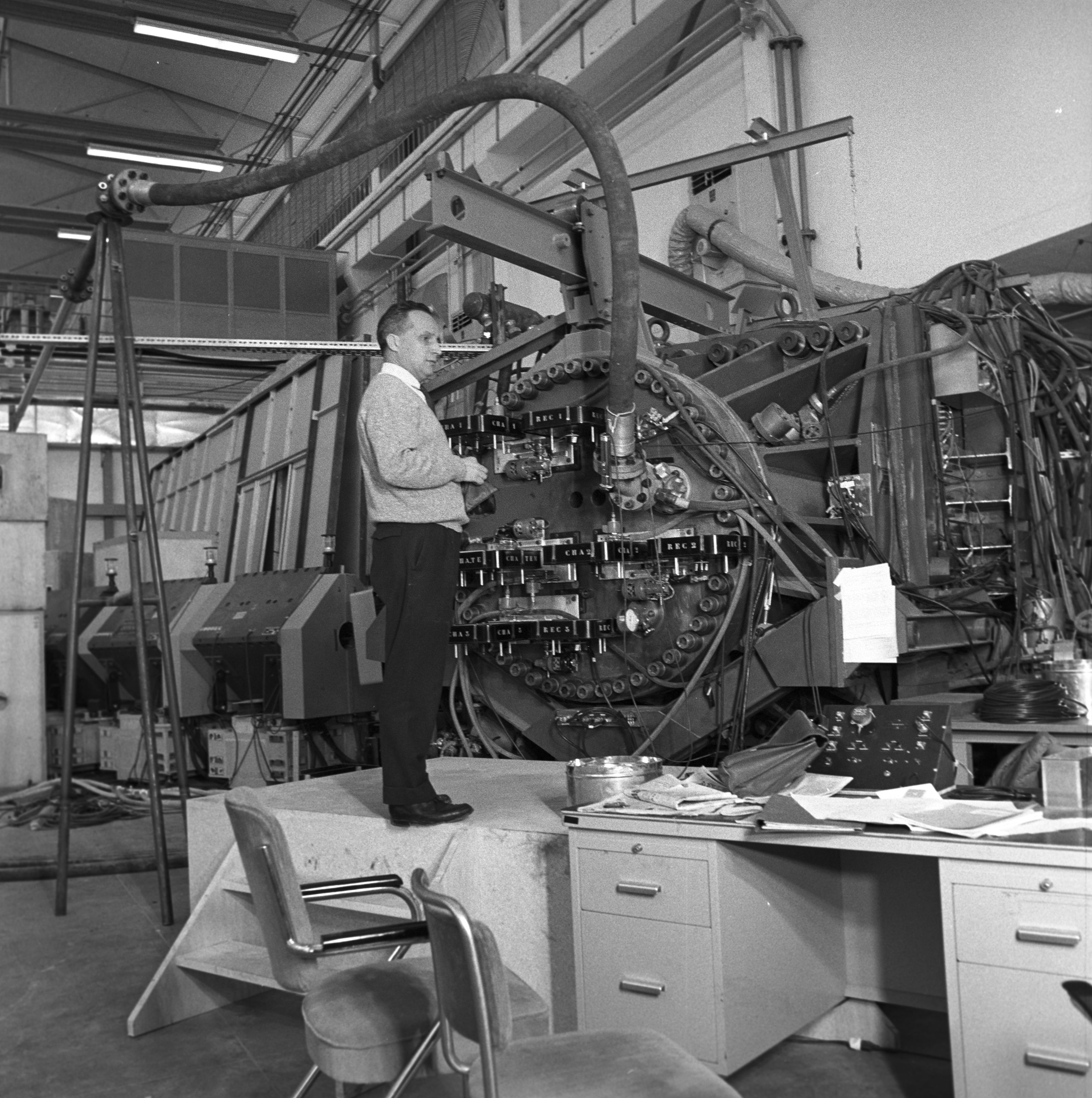 Andre Lagarrigue at the BP3 bubble chamber at the Ecole Polytechnique.